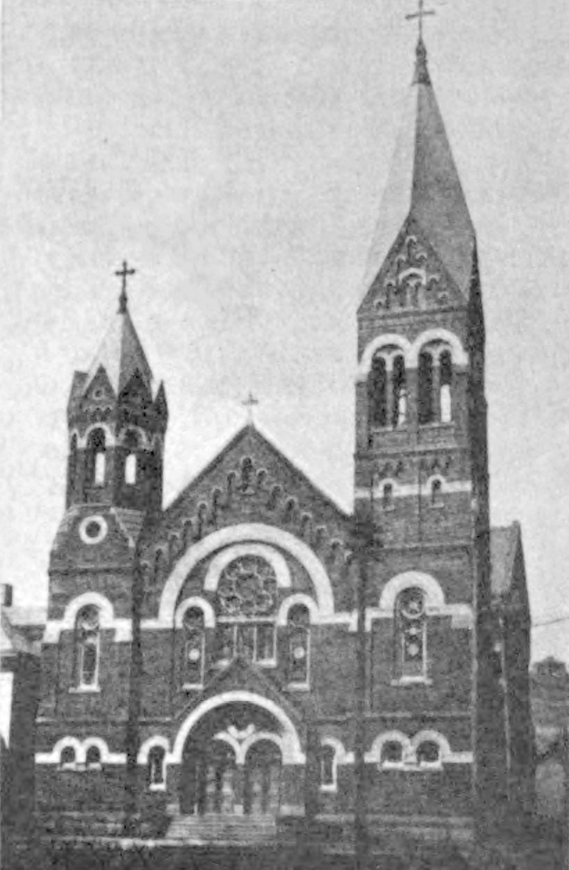 Holy Name Cathedral (Steubenville, Ohio) is the Cathedral for the Roman Catholic Diocese of Steubenville. It is seen from a 1910 book.